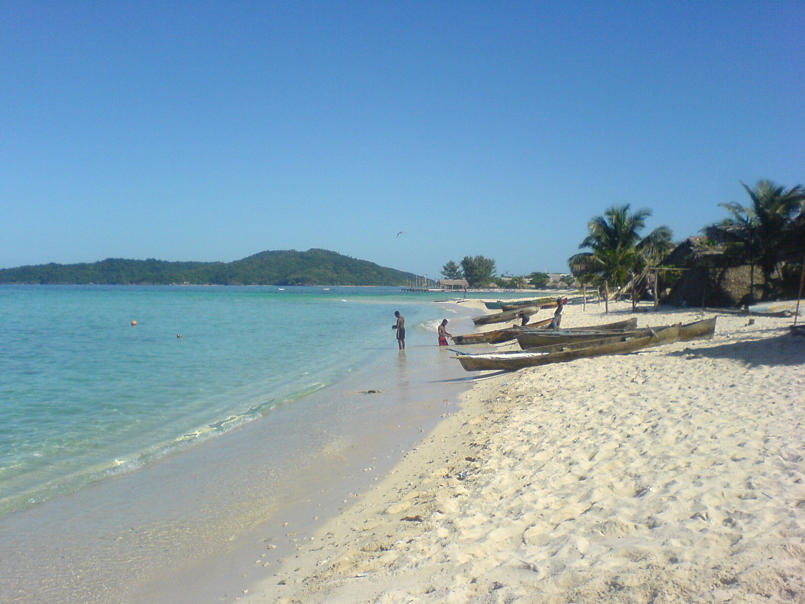 otro mundo en honduras